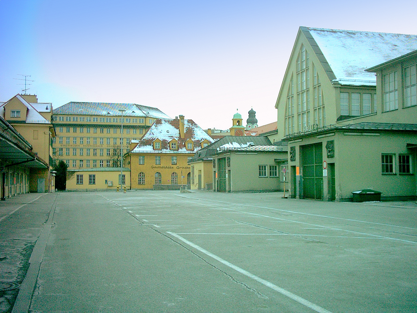 Großmarkthalle, Munich-Sendling: Ensemble of historic buildings. Image taken by Dominik Hundhammer, München, 28 February 2006.